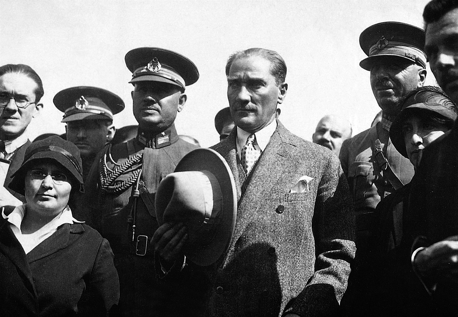 Mustafa Kemal in Izmir for the campaign of the Hat Revolution, October 11, 1925.